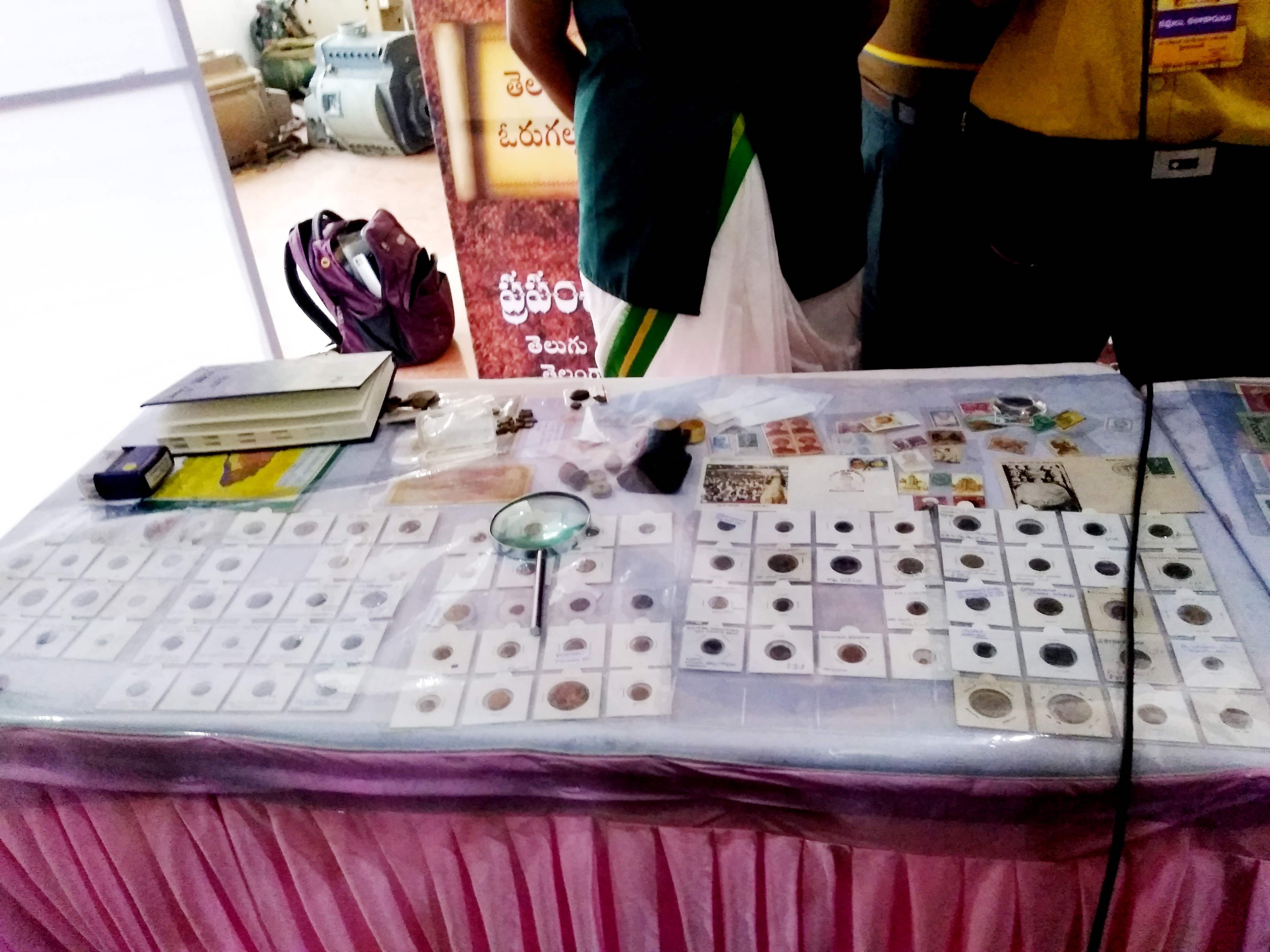 తెలుగు ప్రపంచ మహాసభల వద్ద దృశ్యాలు,వ్యక్తులు,సమావేశాలు